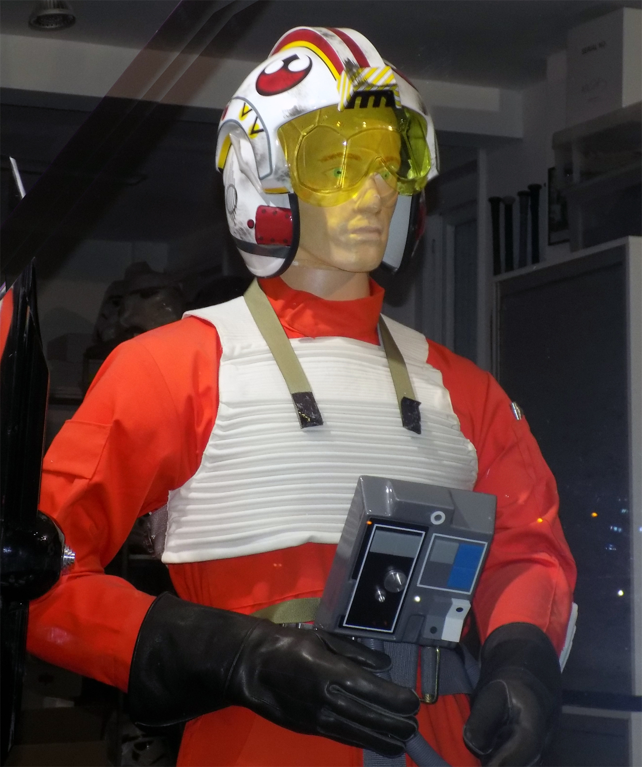 A replica of a typical Rogue Squadron, X-Wing Pilot's uniform. FAIR USE. Replica, not original and not a part of the official Star Wars dynasty. Pretty good attempt never the less!